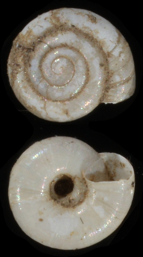 Photo of apical and umbilical view of the shell of Vitrea vereae. Locality: Bulgaria: Osam river, S Lovech, UTM LH17. Date: 2008-05-11.